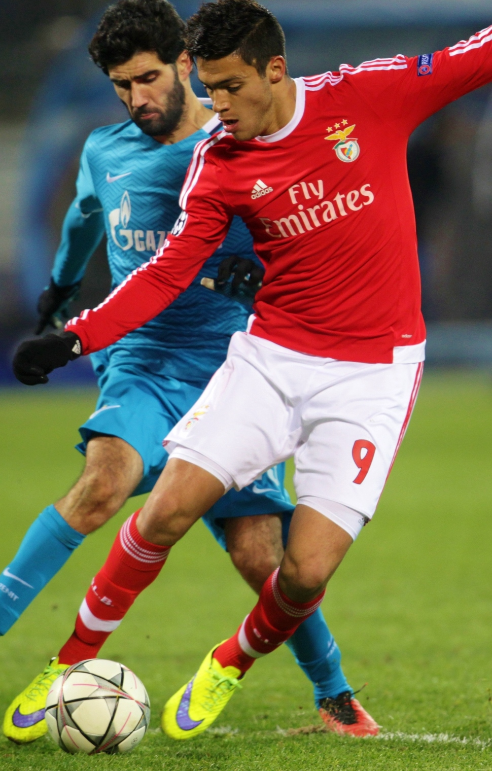 Raúl Jiménez